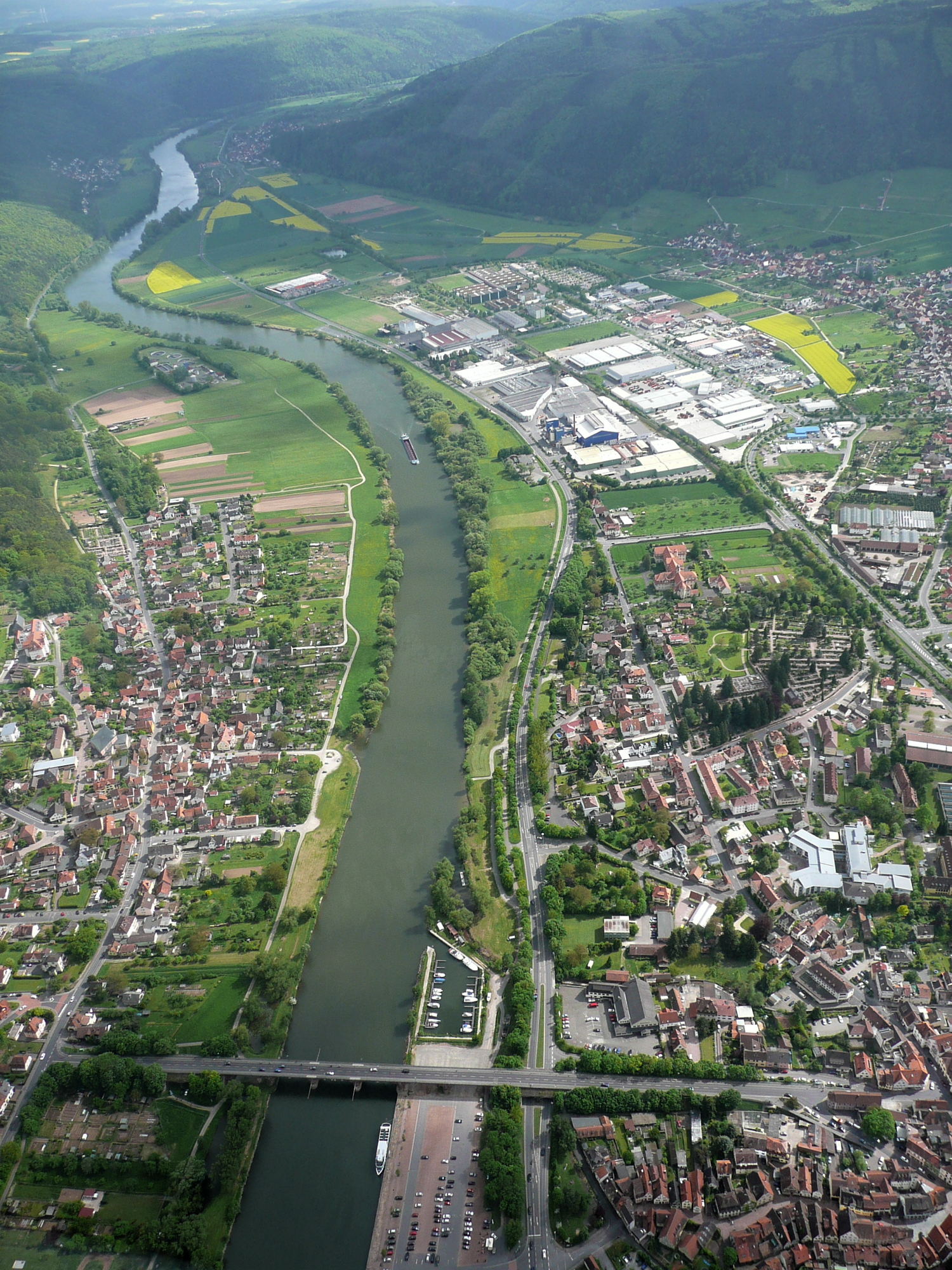 Aerial view of Lohr am Main, Germany. Valley of river Main and industrial zone